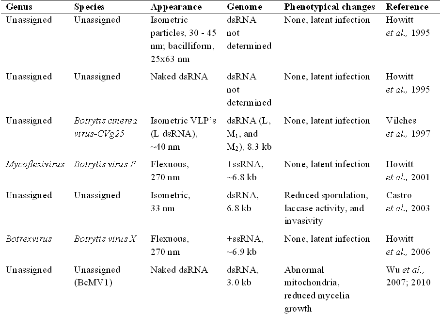 The Genus, Species, Appearance, Genome, and Phenotypical changes of mycoviruses infection B. cinerea are listed. Respective references are given.